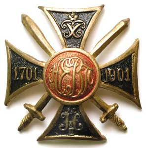 Badge of Nizegorodsky 17-th dragoon Regiment